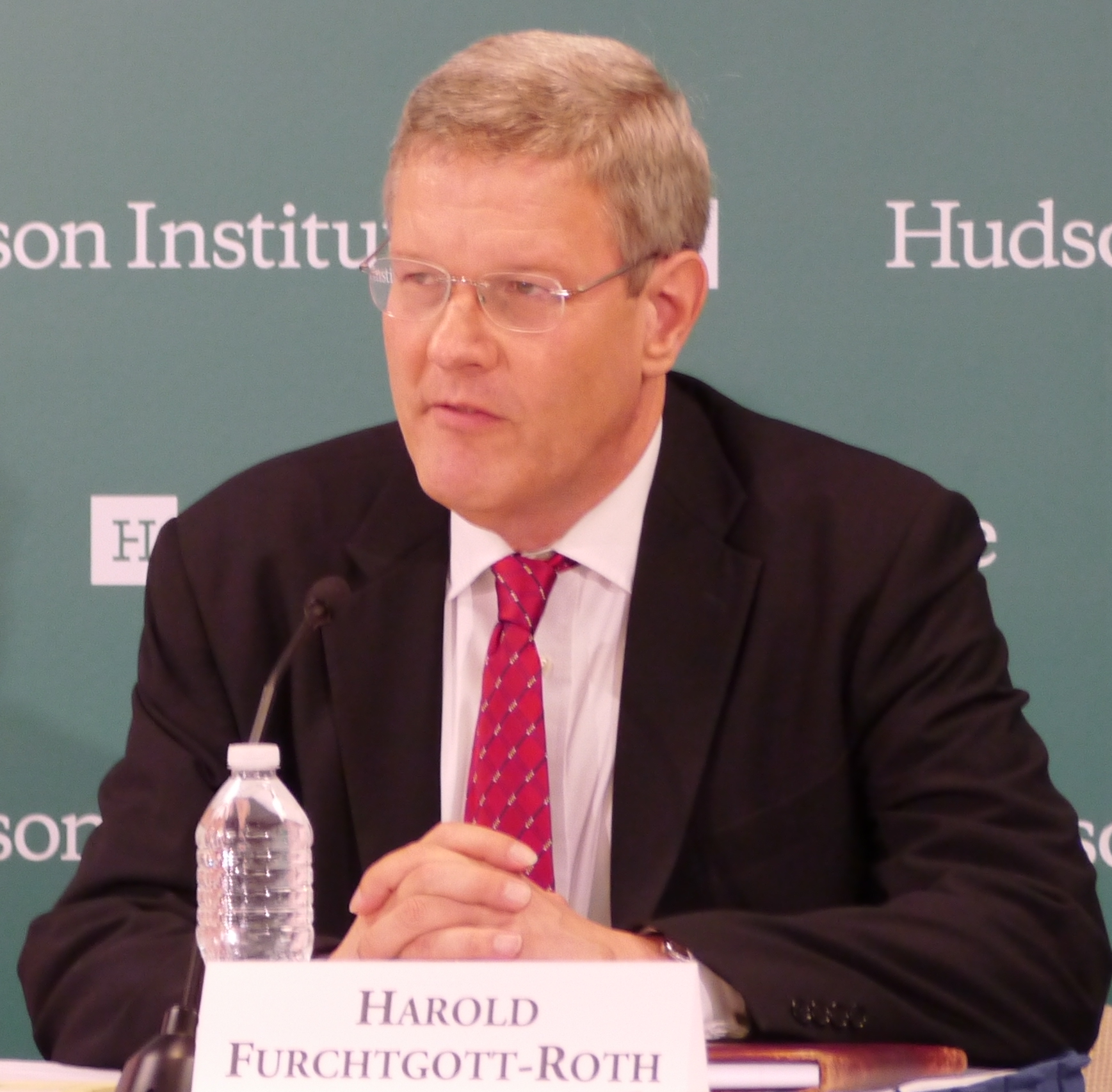 Senator Deb Fischer joins Hudson Institute's Center for the Economics of the Internet's Director Harold Furchtgott-Roth for a discussion on Internet regulation and the FCC.